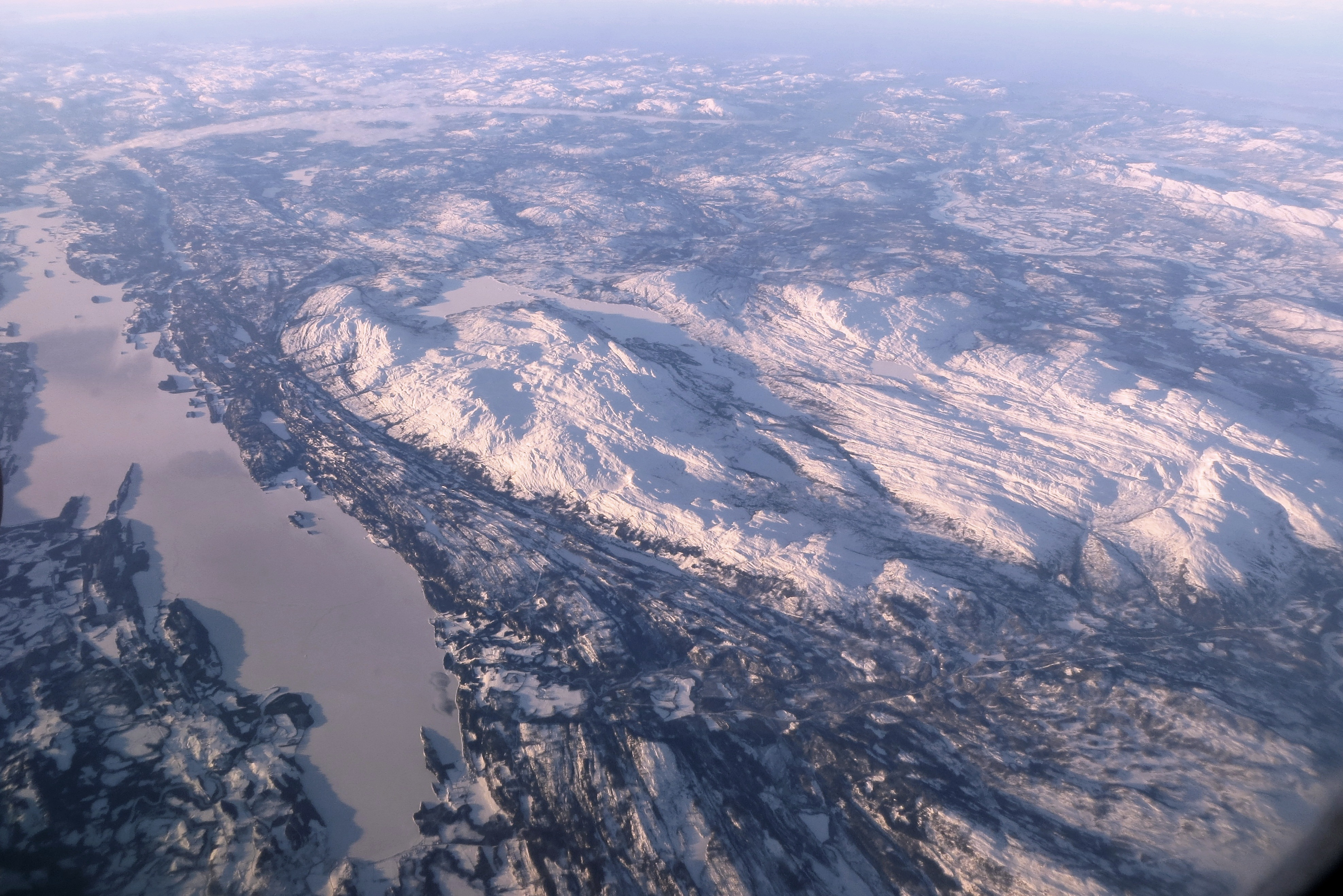 Aerial image, from east towards west, over Steinkjer municipality, Nord-Trøndelag county, Norway